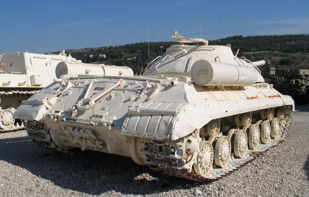 Captured Egyptian IS-3 heavy tank in Yad la-Shiryon Museum, Israel